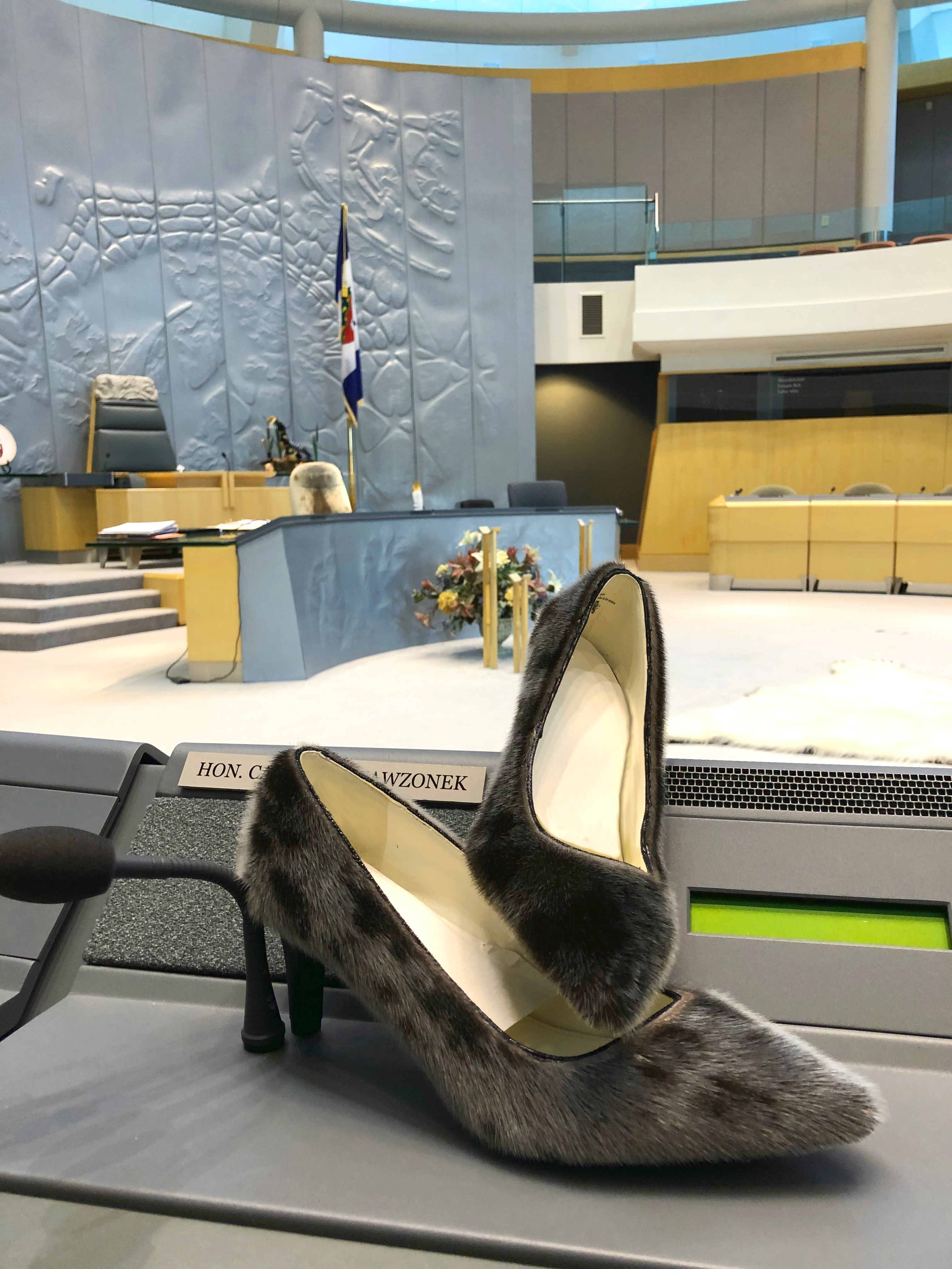 Natural Harp Seal Shoes made by ENB Artisan in Iqaluit, Nunavut for Northwest Territories Finance Minister, Caroline Wawzonek, member for Yellowknife South, for her budget address on February 25, 2020